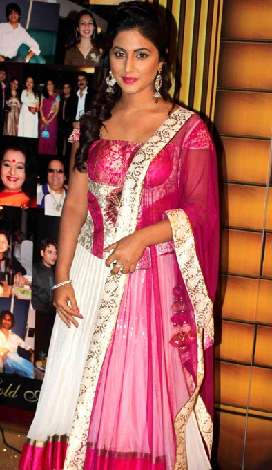 Hina Khan at the 5th Boroplus Gold Awards in July 2012